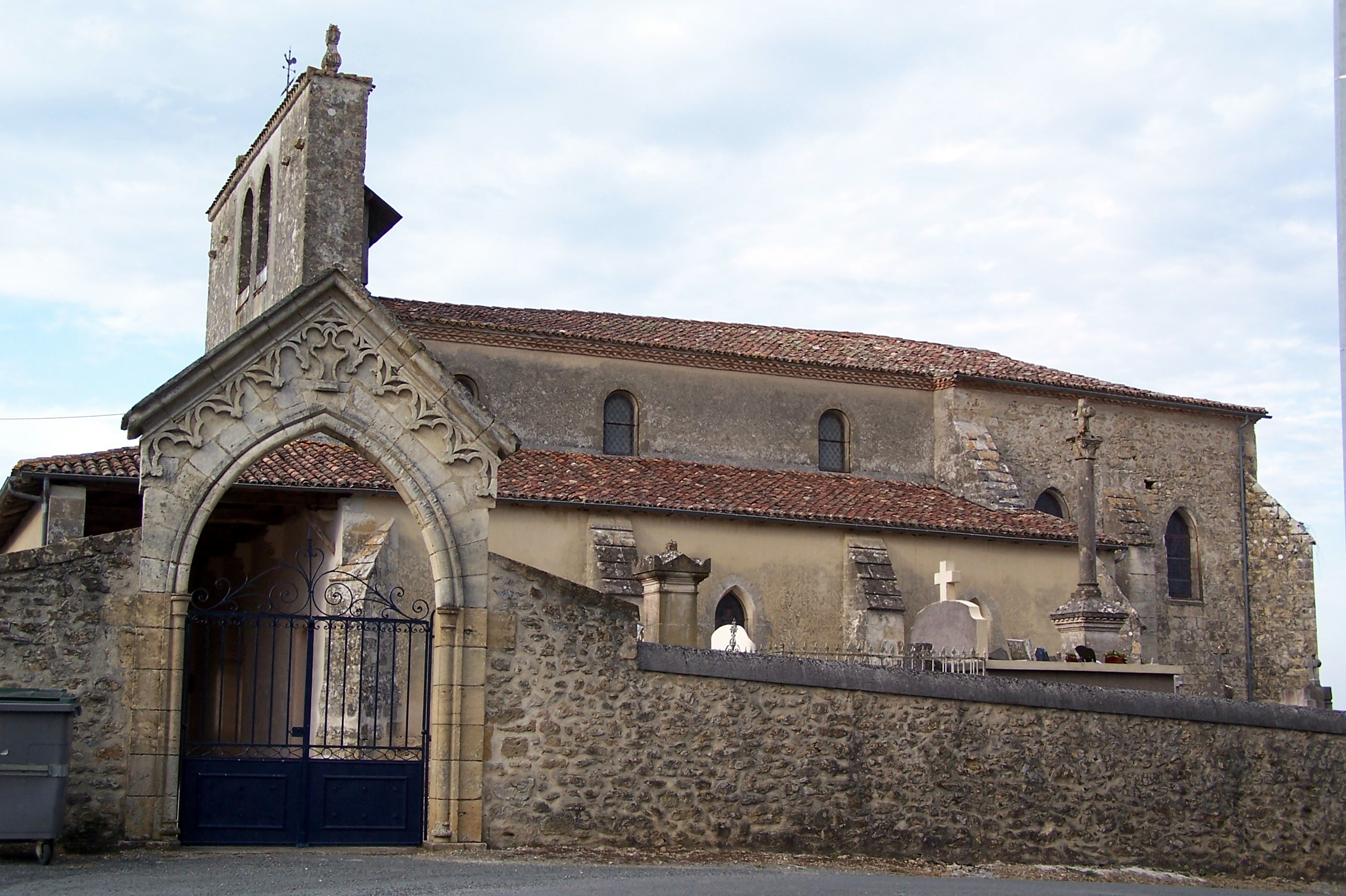 Church Saint-Côme et Saint-Damien of Saint-Côme (Gironde, France)